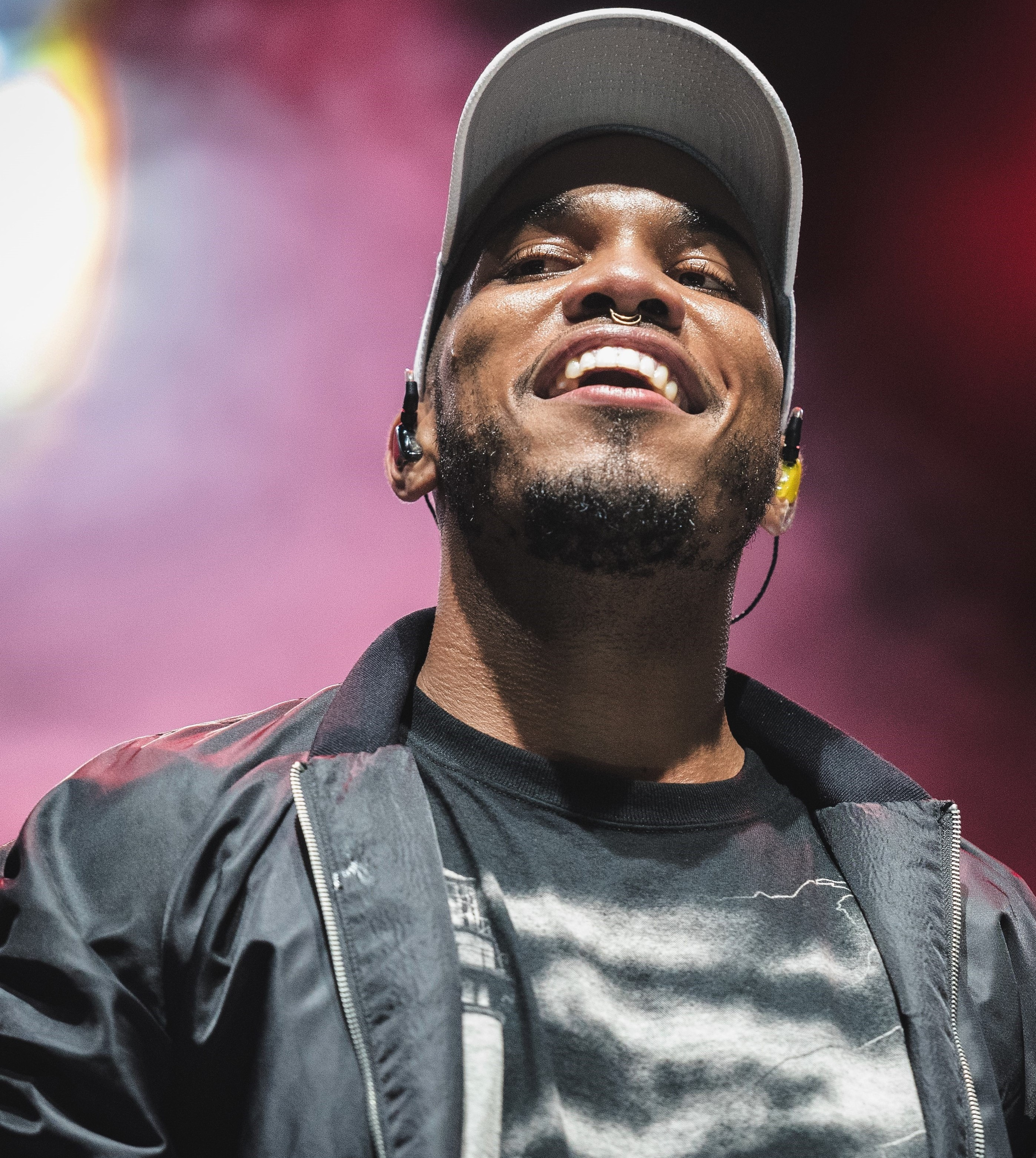 Anderson .Paak performing for the Manifesto Festival at TD Echo Beach in Toronto, Ontario, Canada on September 17, 2016.